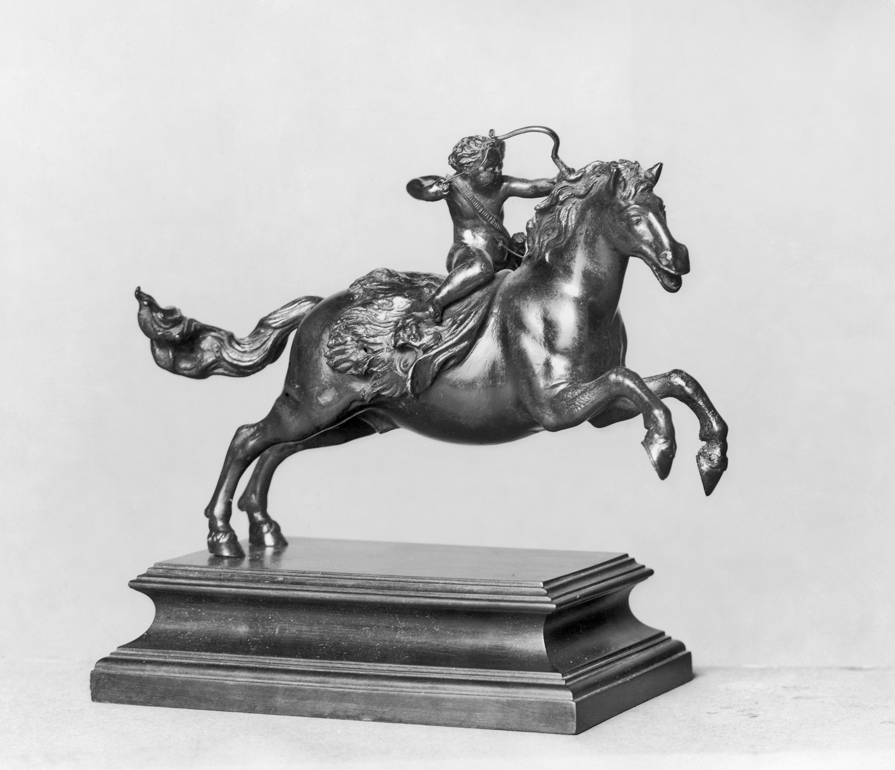 Inspired by love poetry, the notion of Cupid as a hunter imagines the experience of falling in love as the result of an onrushing attack. Nobody is safe from Cupid's bow. His steed is depicted in full gallop, its front hooves lifted, a wonderful display of baroque energy and movement. The Italian sculptor Francesco Fanelli was active in England from about 1630 through 1642. In his treatise on architecture, he proudly described himself as "sculptor to the king of Great Britain." This is one of the models that he and his workshop produced in significant numbers during his years working for Charles I and his court; the version in the king's collection may have been the prototype.